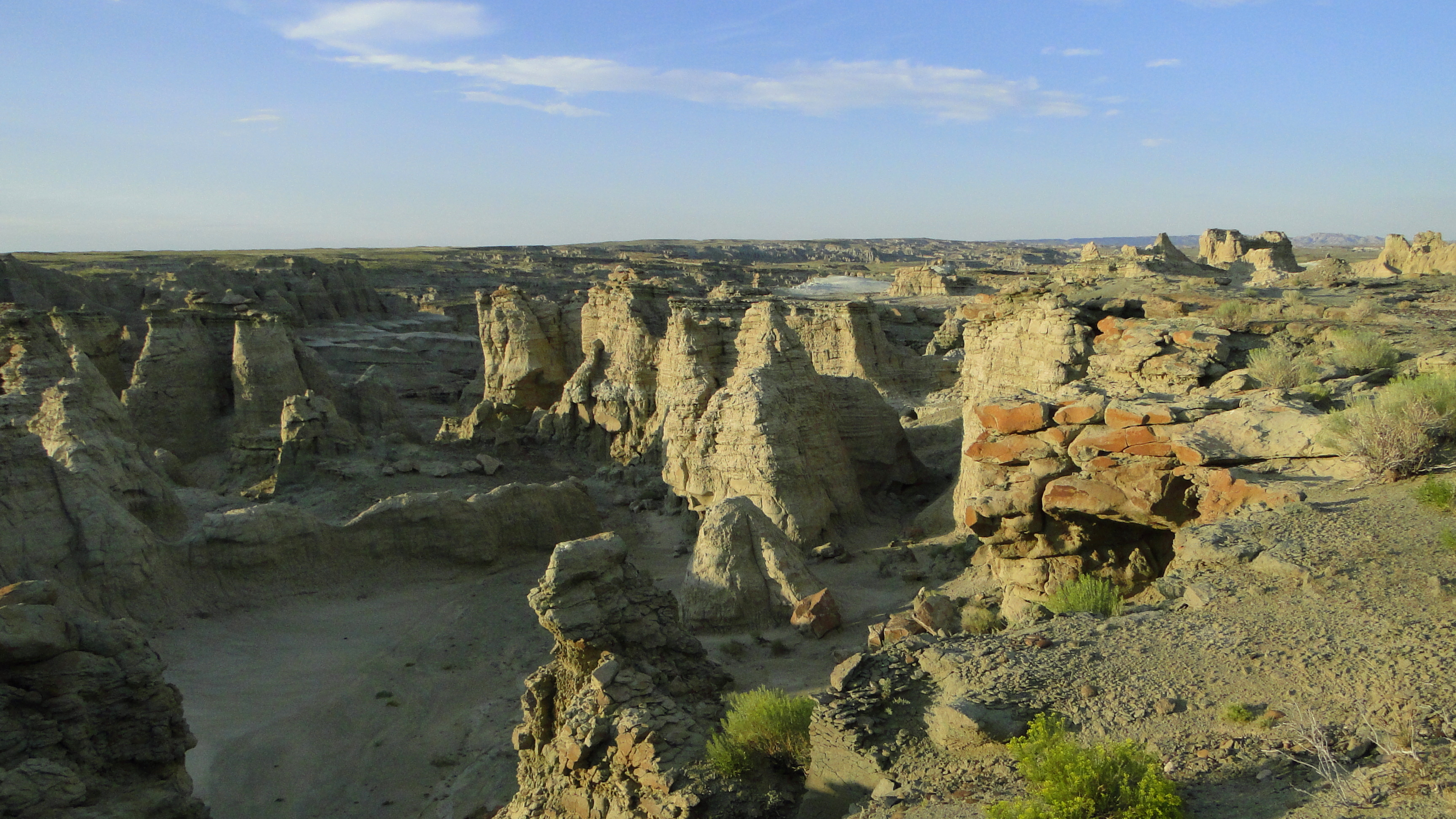 Sandstone desert pinnacles in Adobe Town Area. Red Desert (Wyoming)